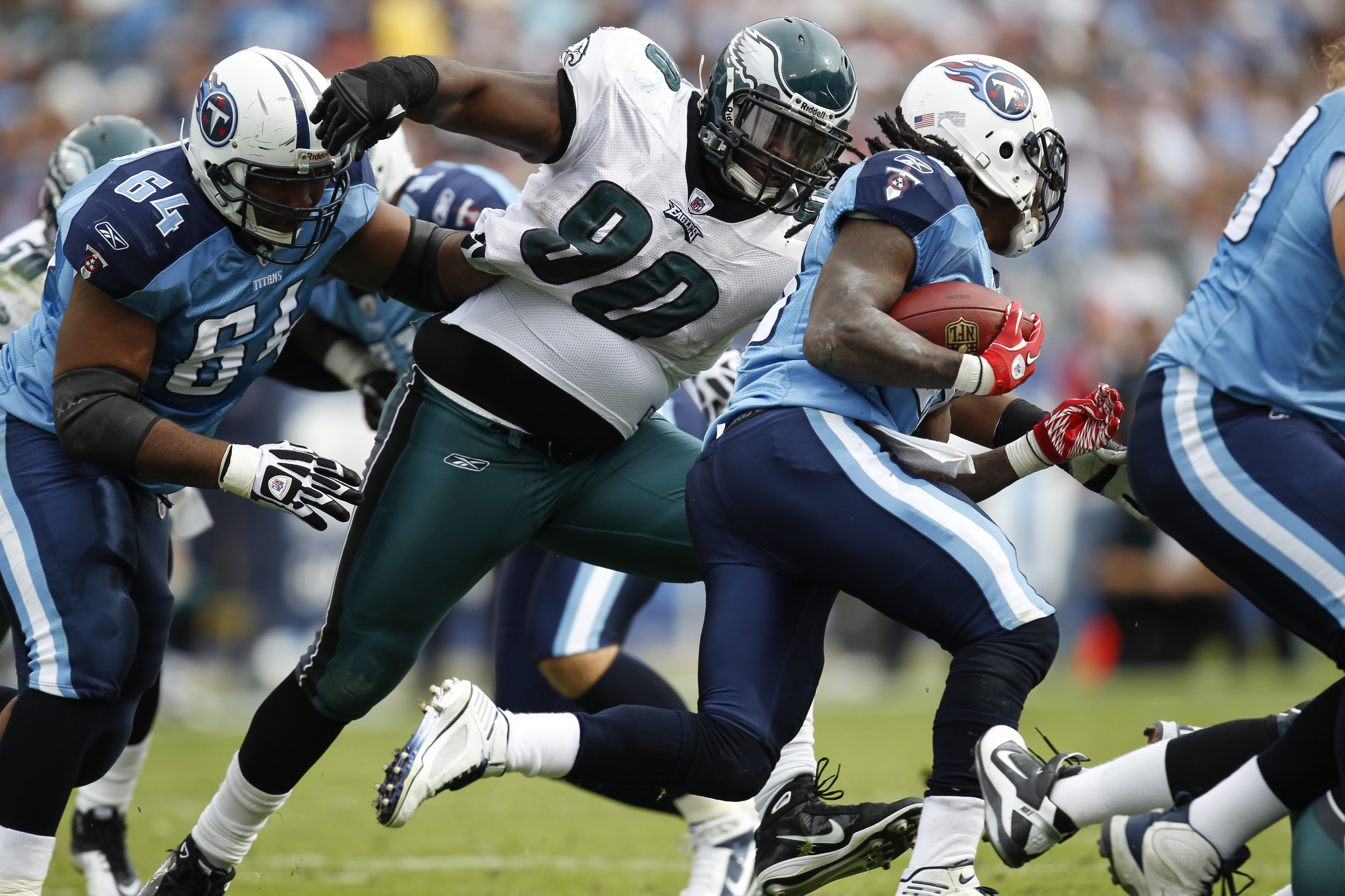 Philadelphia Eagles defensive tackle Antonio Dixon tackling Tennessee Titans running back Chris Johnson in a game on October 24, 2010.